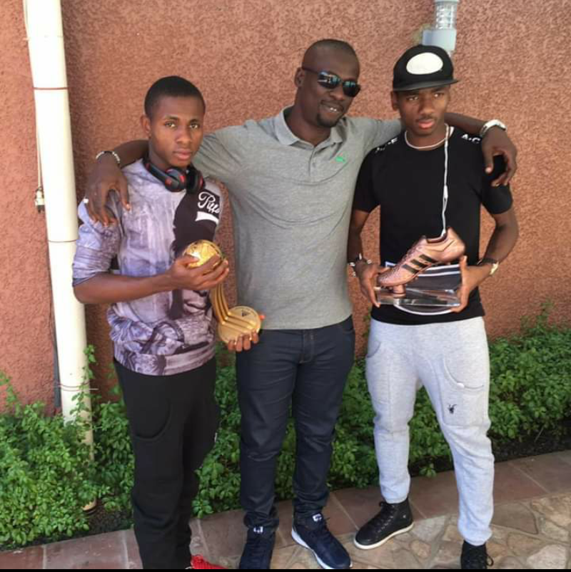 Is an image of samuel chukwueze with his U17 bronze boot award with Victor Apugo and Kelechi Nwakali holding his MVP award after U17 world in chile 2015